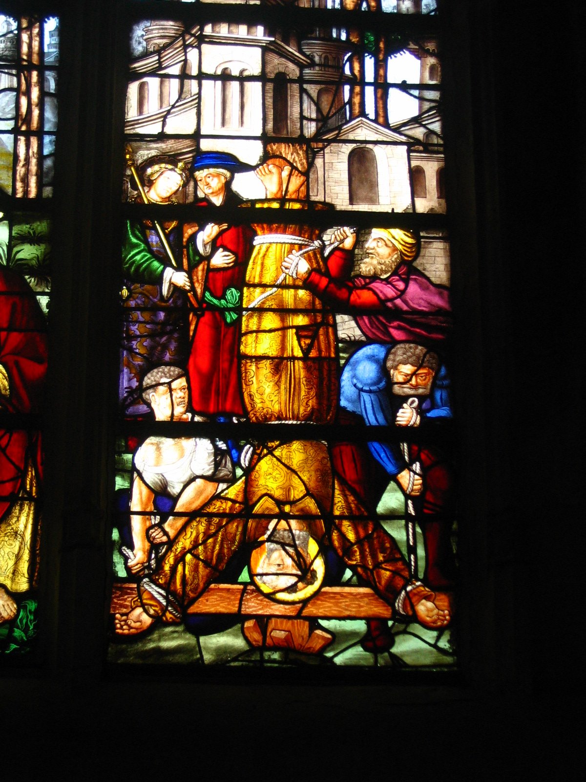 Les Andelys, church Notre Dame, stain glass, 16th century, Normandy.